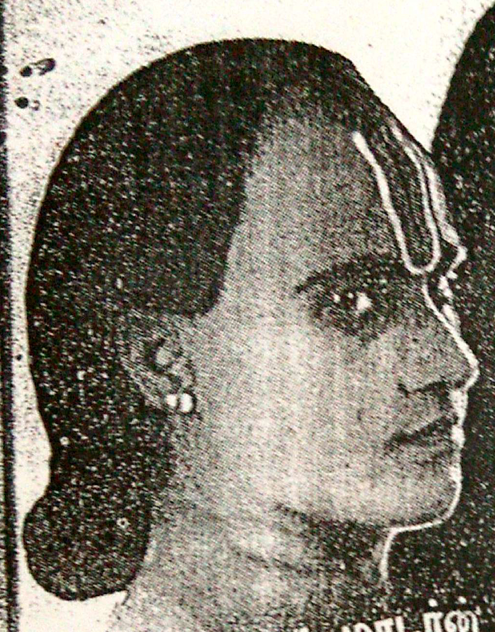 A Tamil film actor who featured in a few Tamil language films during the 1930s and 1940s.